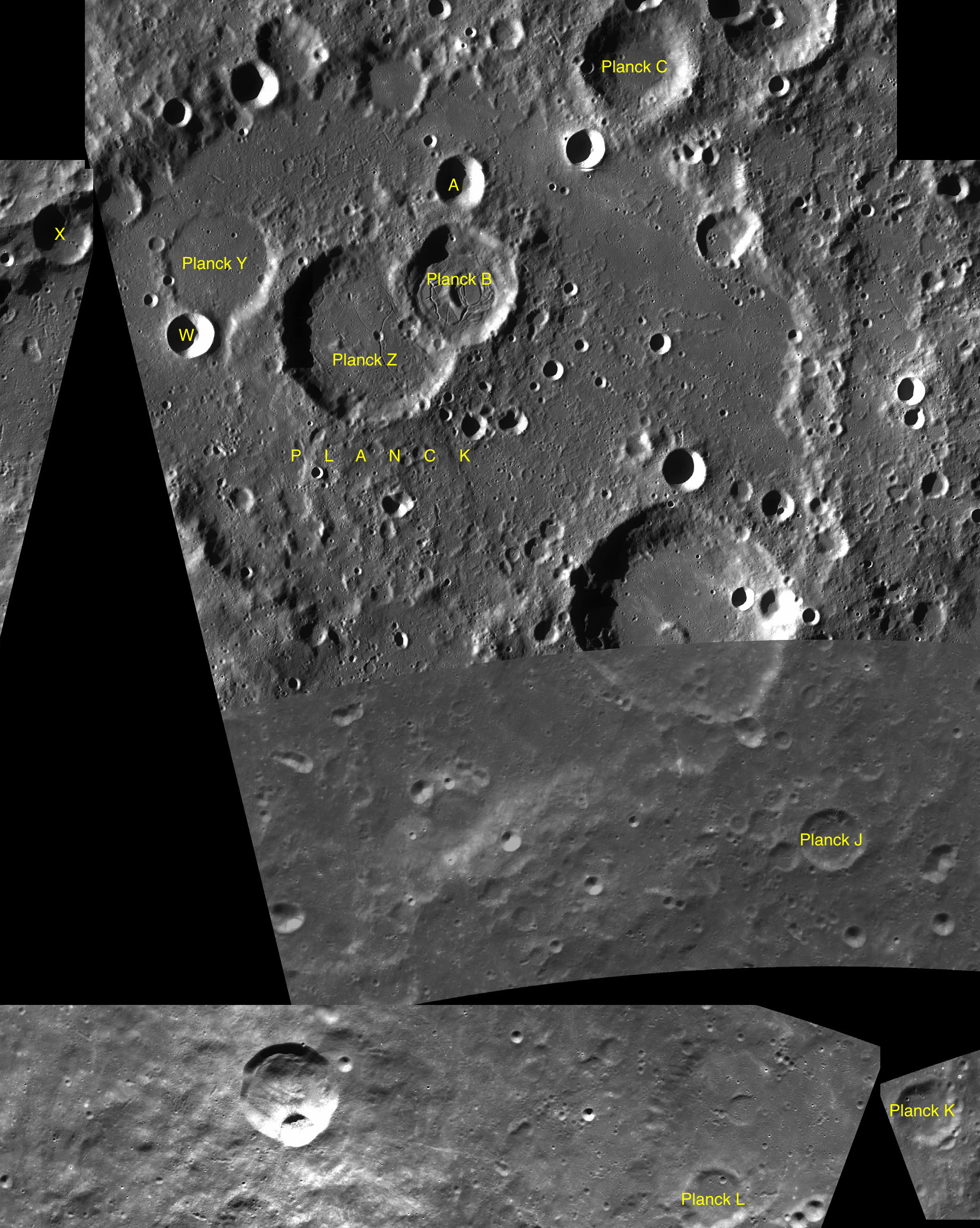 Parts of the charts LAC-130, LAC-131, LAC-140, LAC-141 used for the presentation